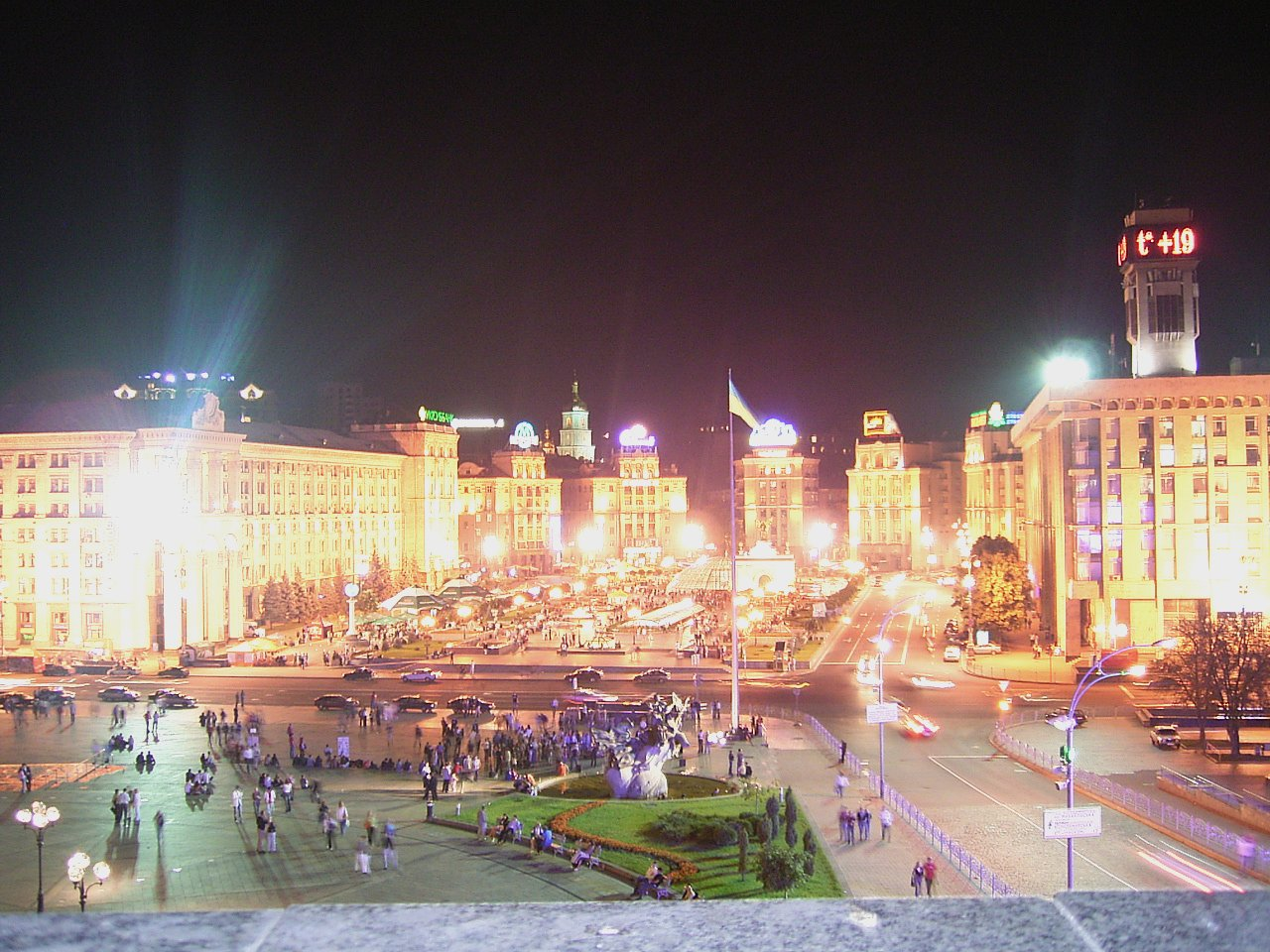 Description: Independence Square at Night, Kiev Author: Alexander Noskin Date: 8-17-2005